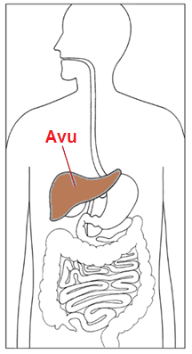 Breton version of Liver.png